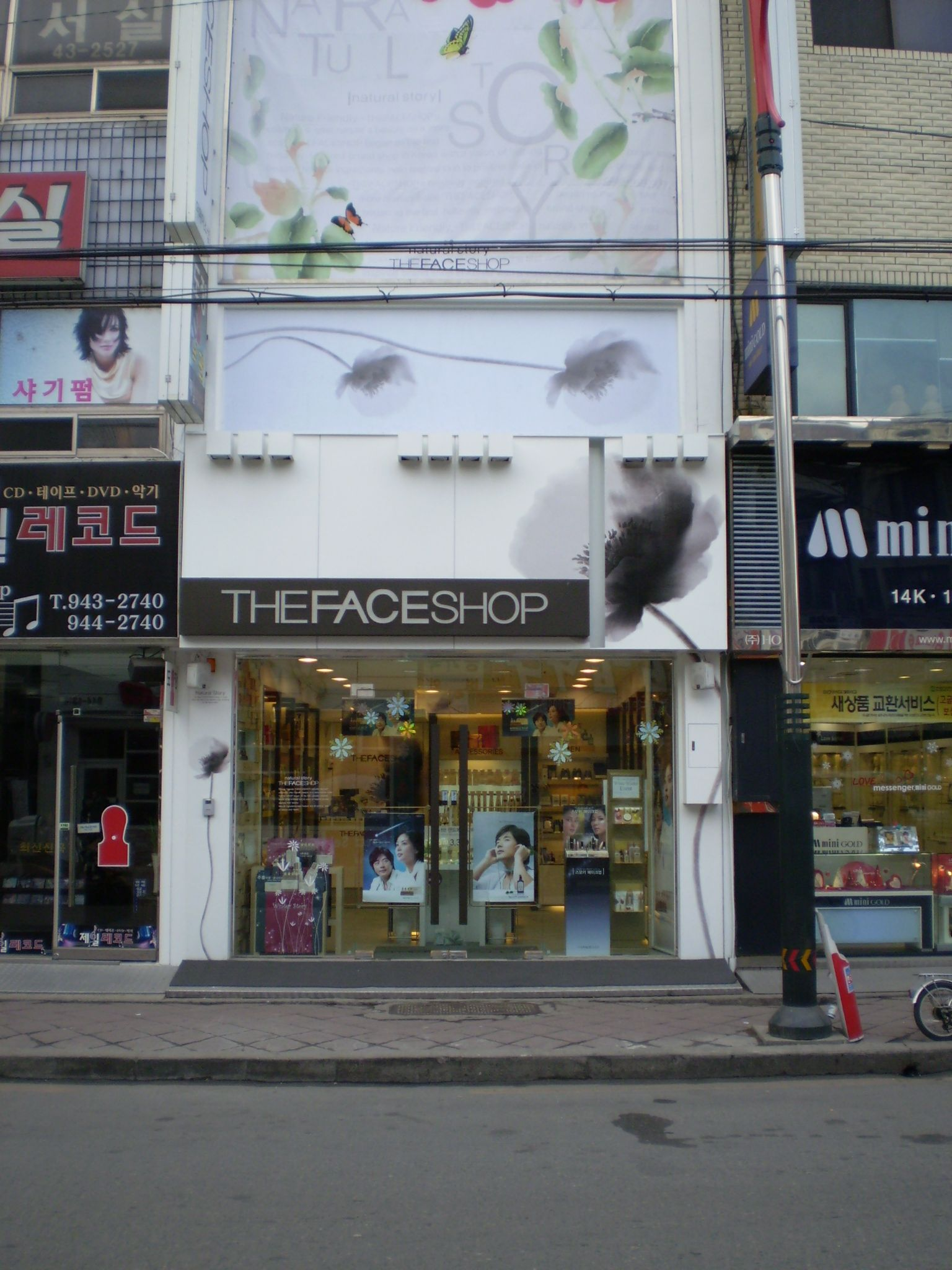 Branch of The Face Shop in Hapcheon, Gyeongsangnam-do, South Korea.